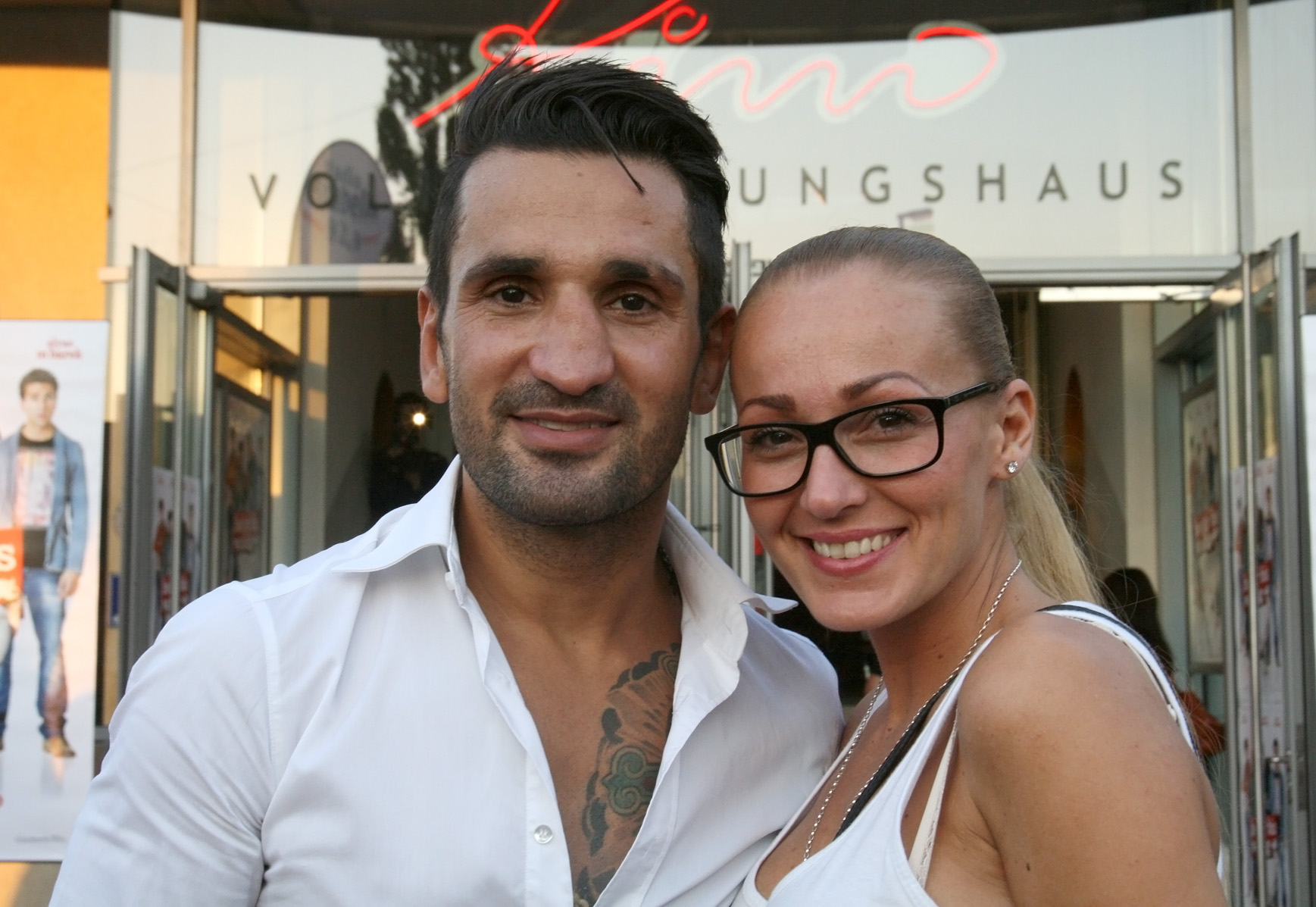 Fadi Merza und Ines Merza at the Austrian premiere of Heiter bis wolkig at Urania cinema in Vienna, Austria.